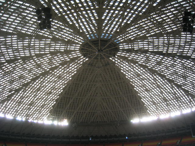 Astrodome Skylights 06:36, 19 September 2005 . . Montrose Patriot . . 640×480 (98 KB)